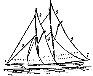 Schooner rigging: 1) Bowsprit; 2) Jib, followed by fore staysail; 3) (Fore) gaff topsail; 4) Foresail; 5) Main gaff topsail; 6) Mainsail; 7) End of boom